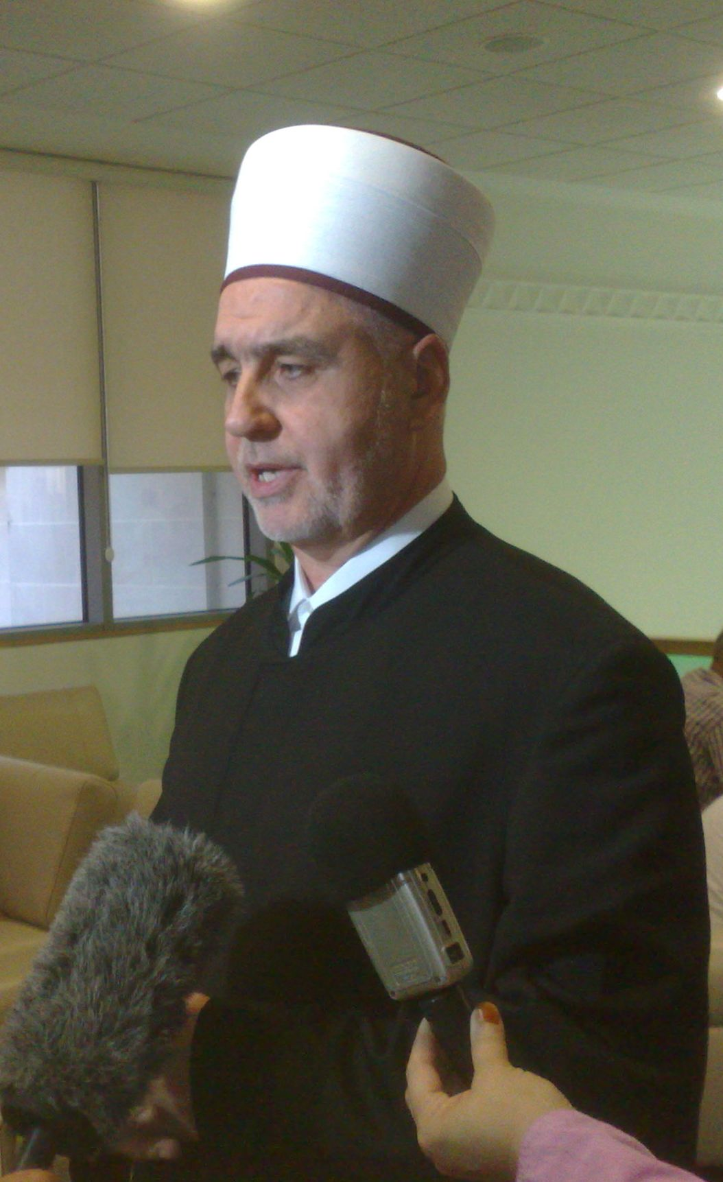 Reisu-l-ulema (Grand Mufti) Husein Kavazovic